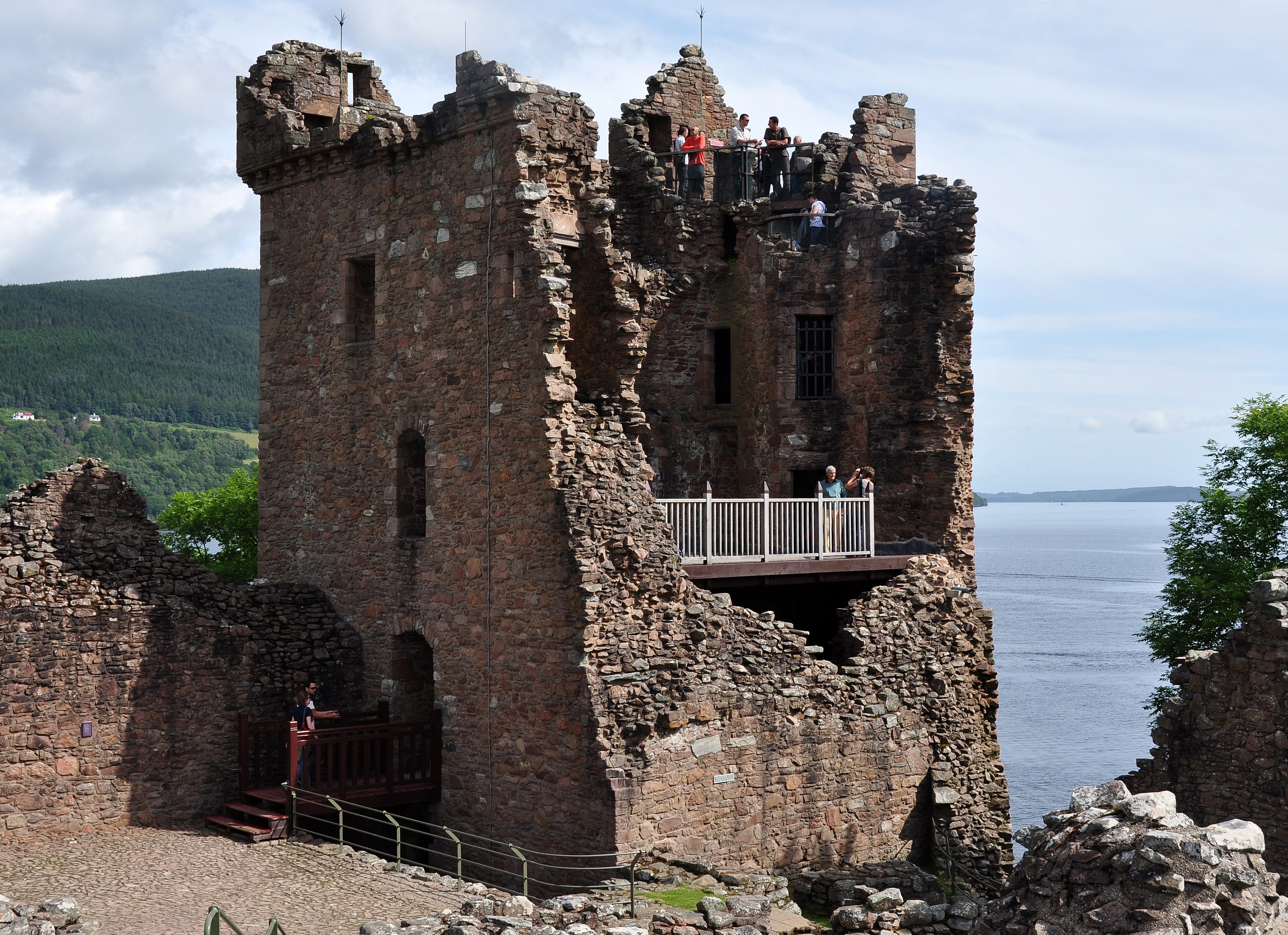 Grant Tower in Urquhart Castle, overlooking Loch Ness in Scotland